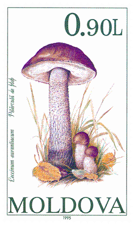 Orange-cap boletus. Leccinum aurantiacum